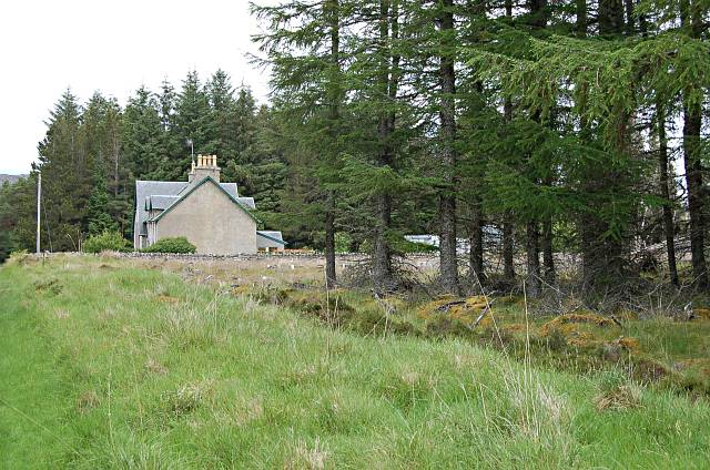 Dunmaglass School. A school no longer and now surrounded by trees